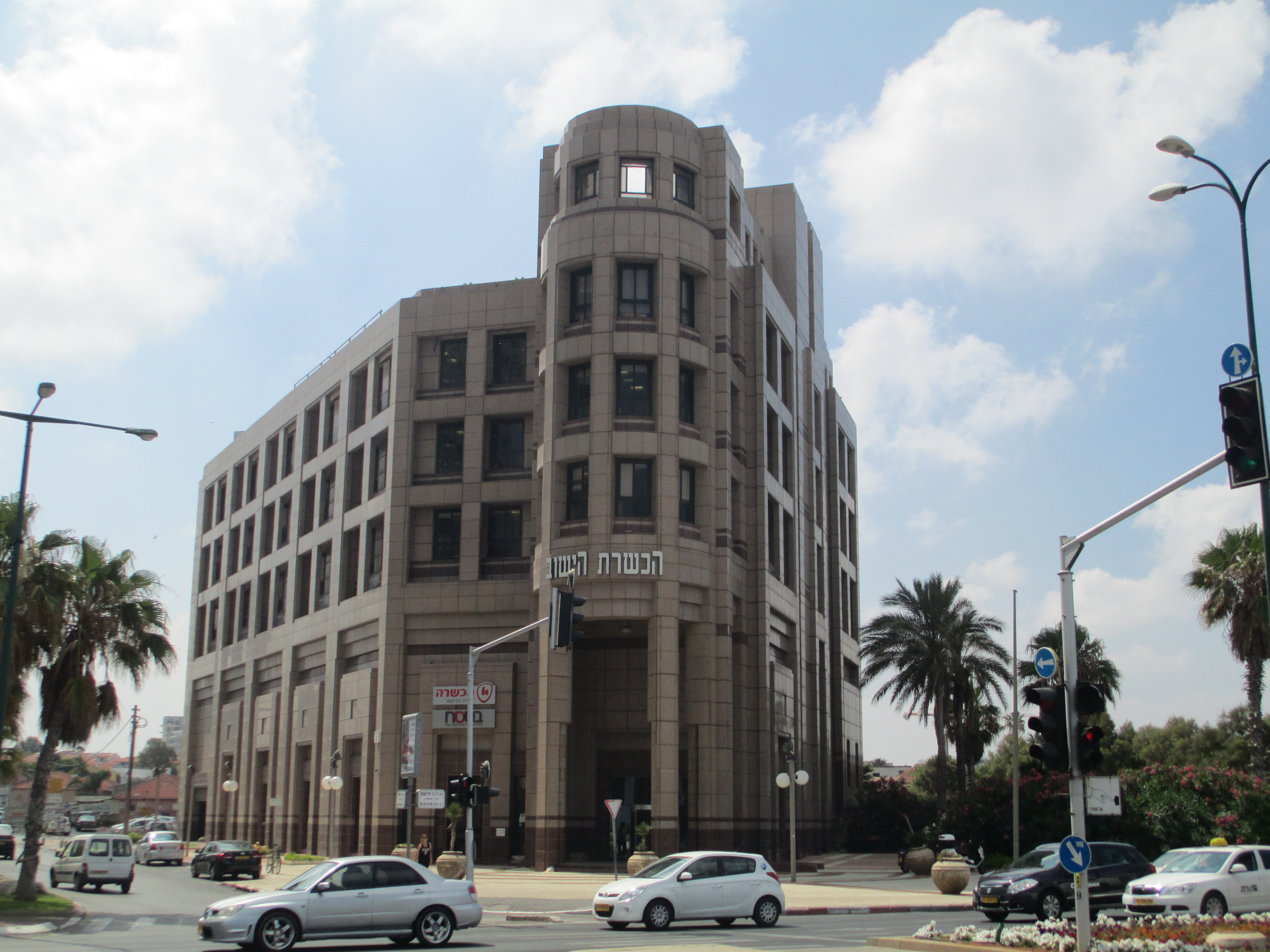 Land development building in Tel Aviv